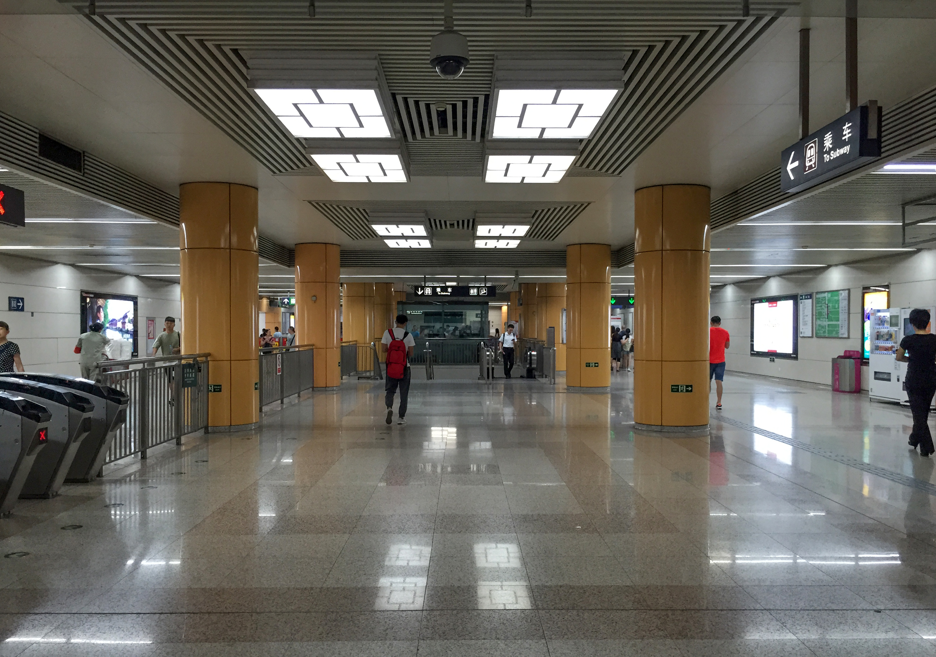 Whole concourse, although only two exits available.